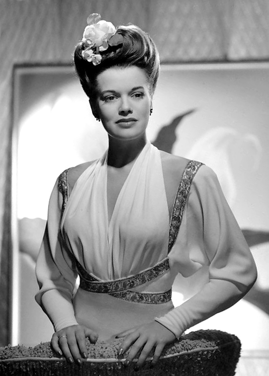 Janis Paige by Clarence S. Bull, 1944. This is an original, vintage 1944 8x10 Key Set still photo issued by MGM studio. Taken upon Ms. Paige's signing of a seven year contract with the studio as noted on the rear